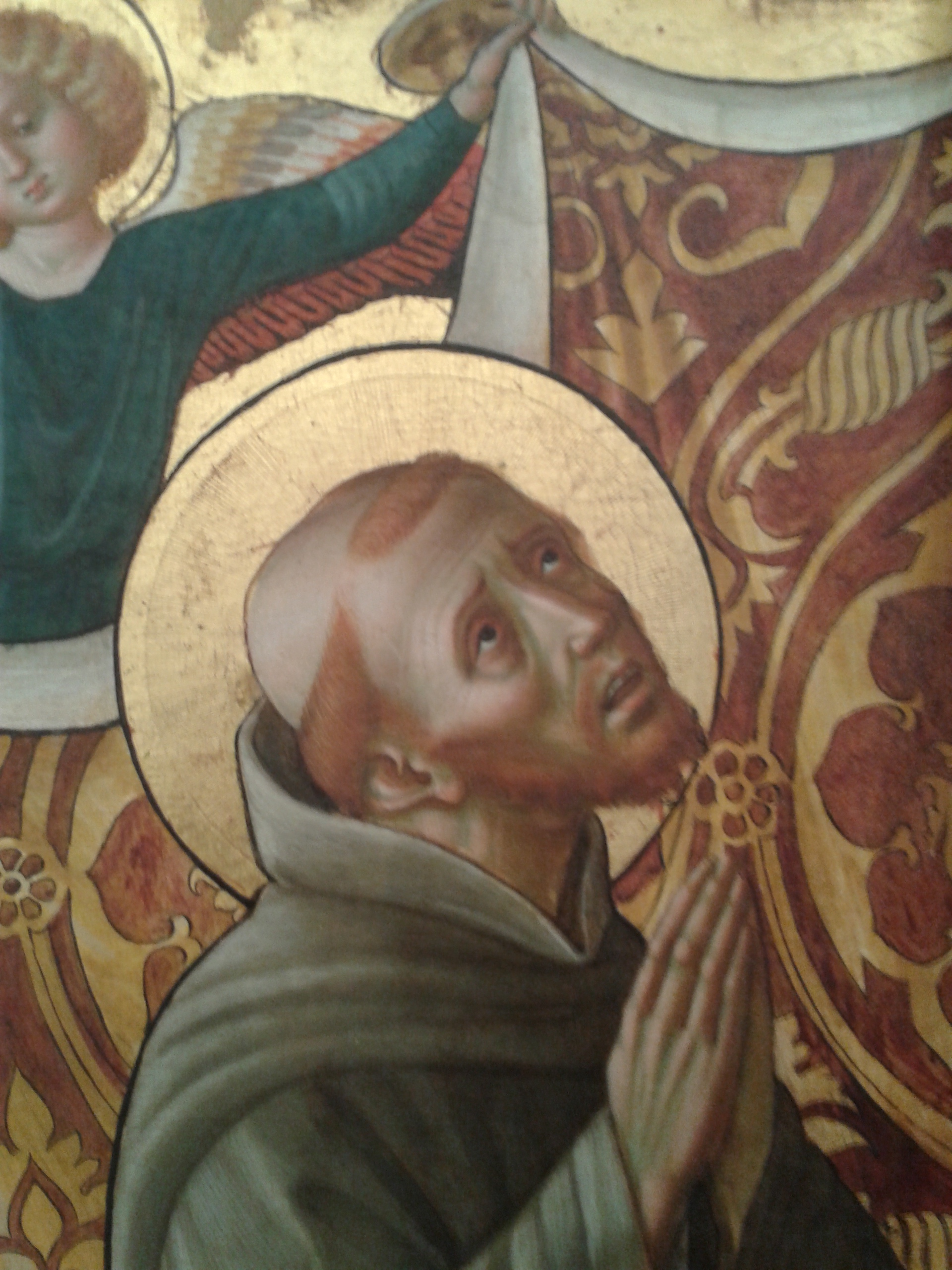 retro gonfalone beato egidio